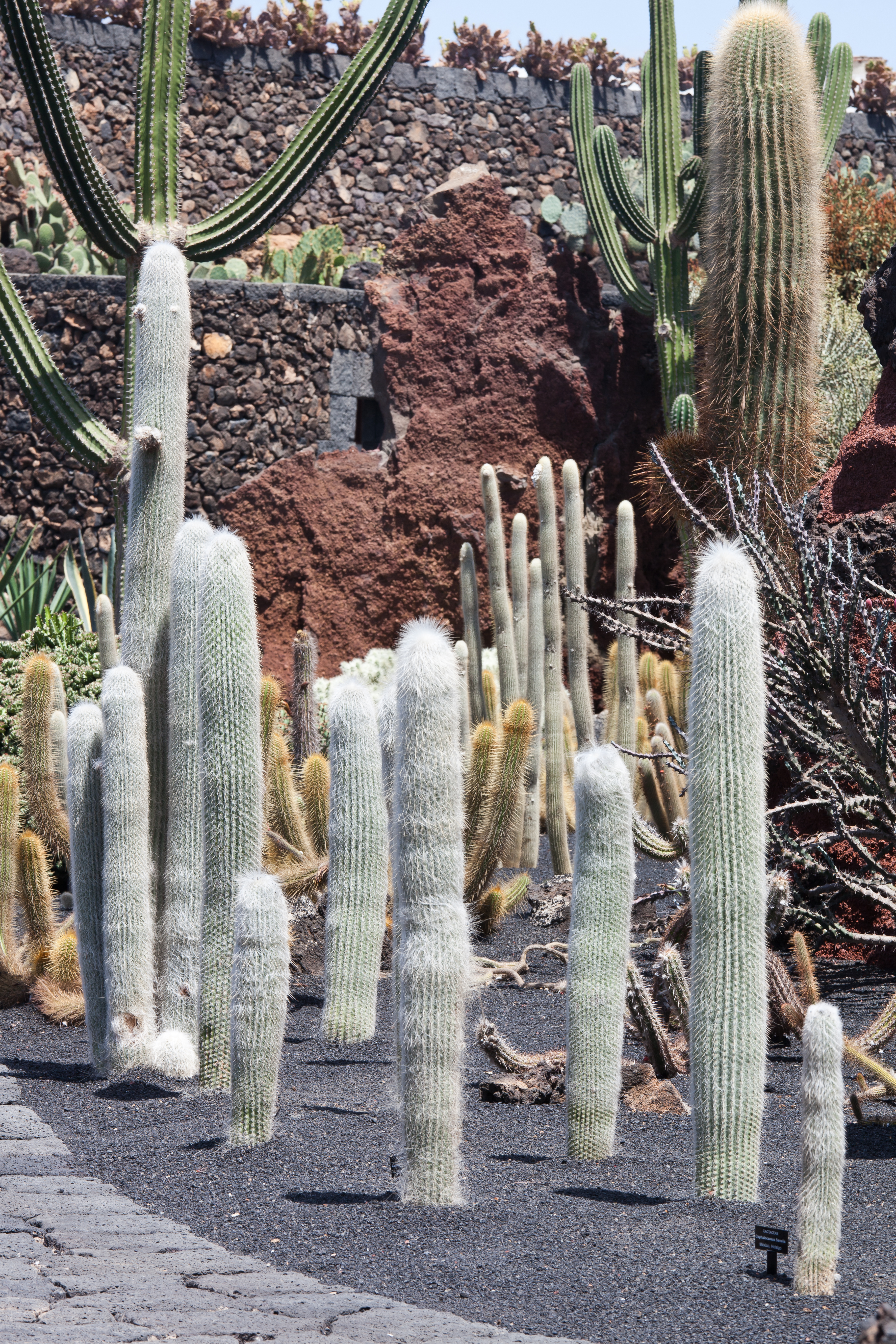 Cephalocereus senilis. Jardín de Cactus, Lanzarote Determinada en por Juan Bibiloni